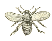 (Removed after reusableart request.)